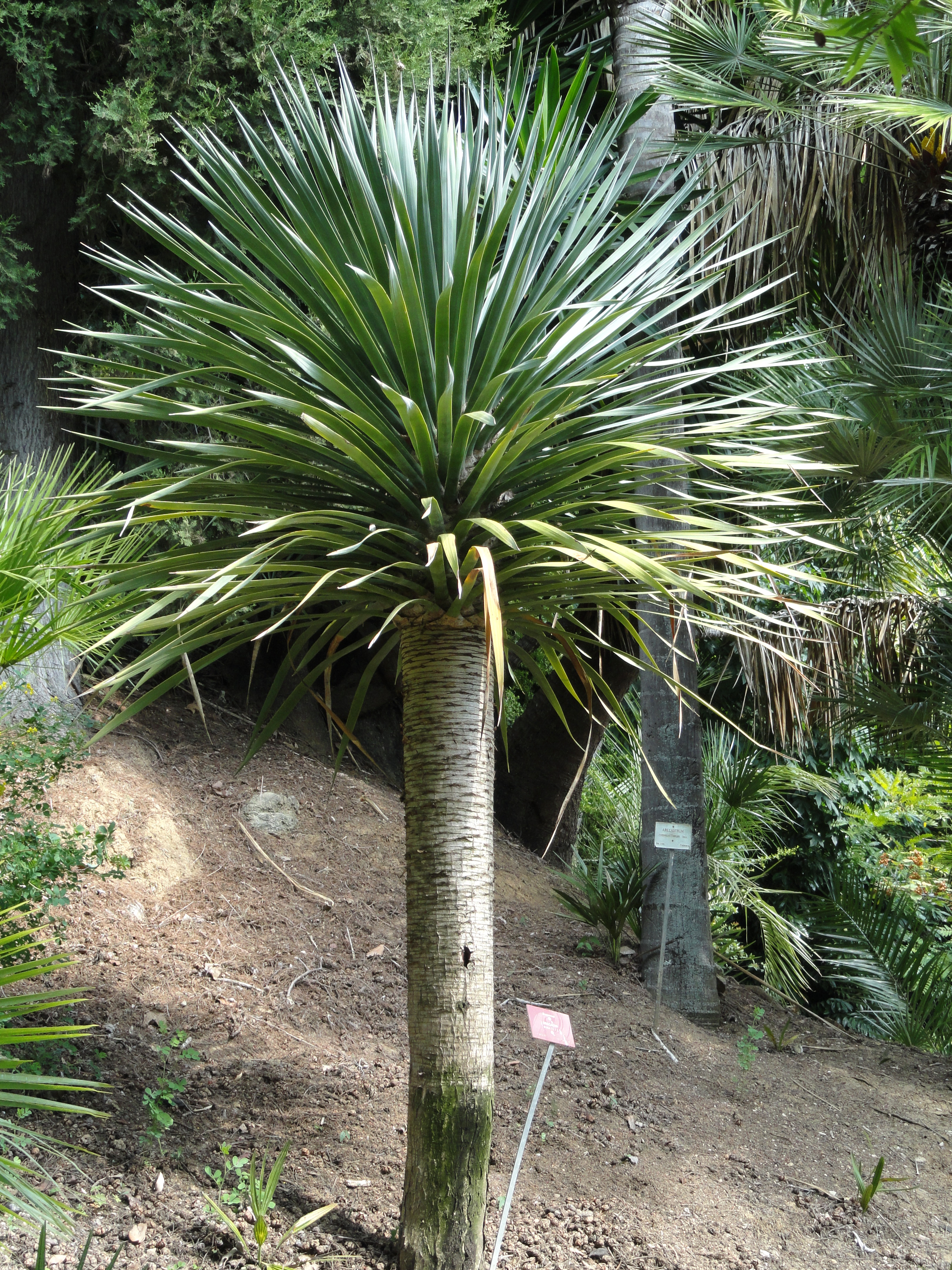 Dracaena draco specimen in the Jardin botanique du Val Rahmeh, Menton, Alpes-Maritimes, France.